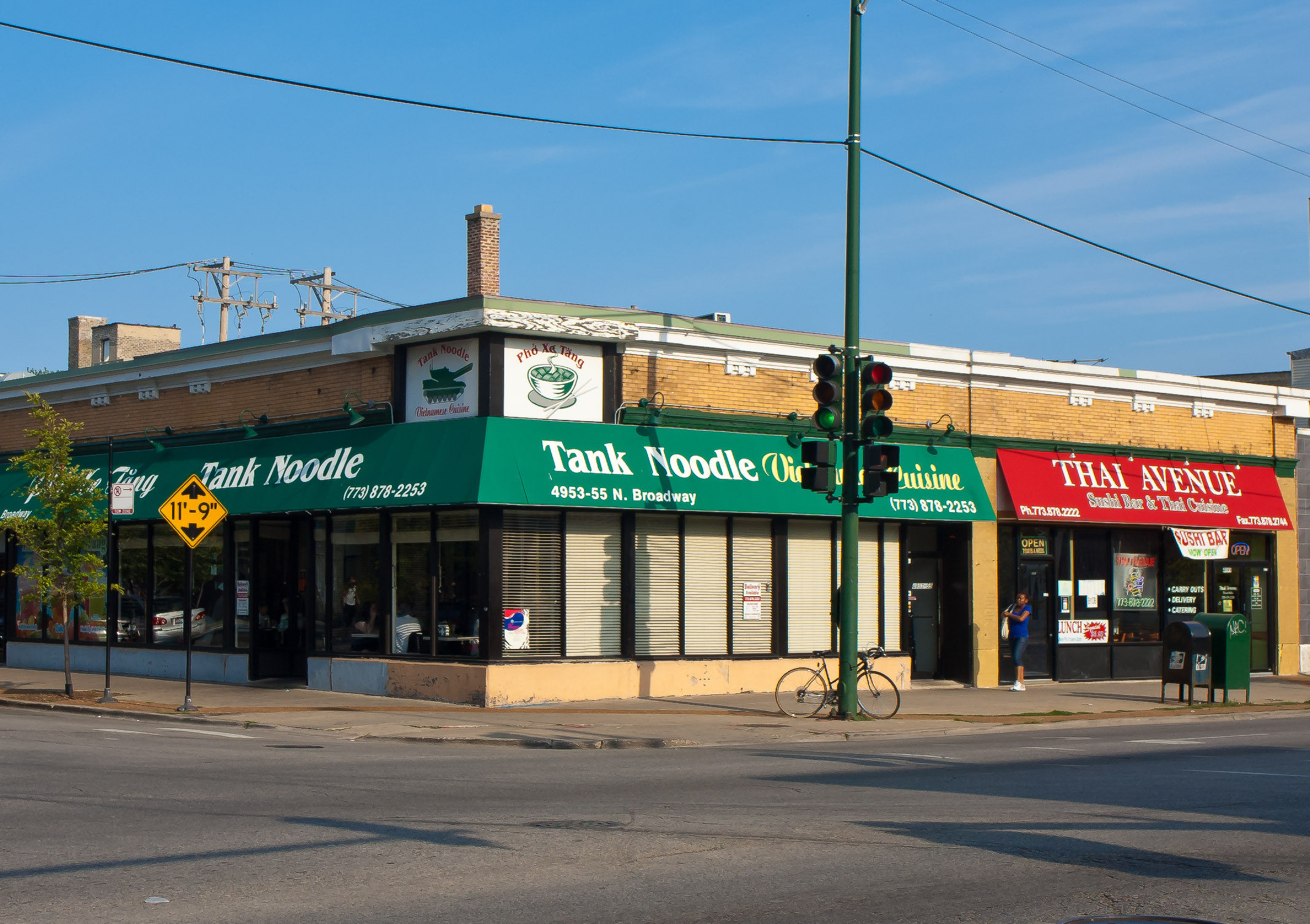 Vietnamese and Thai restaurants in the West Argyle Street Historic District of Chicago, Illinois